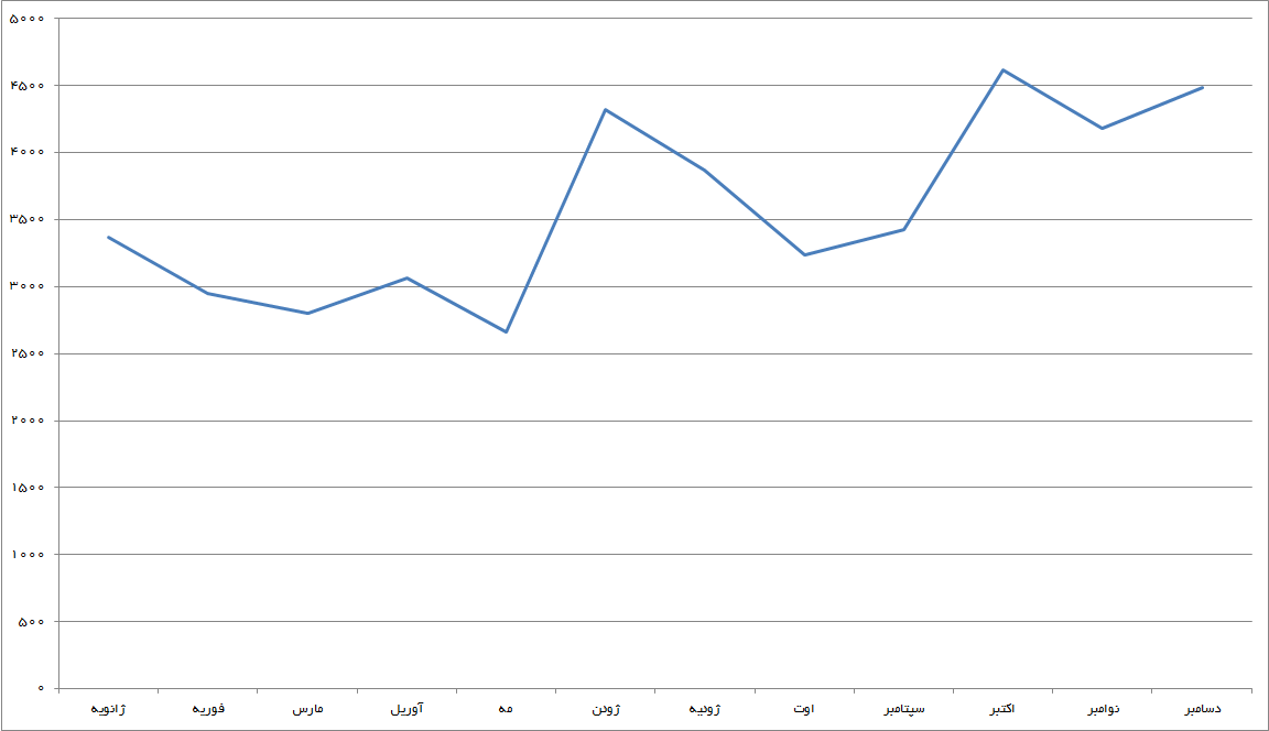 Number of registrations per day in persian Wikipedia (Jan - Dec 2016)